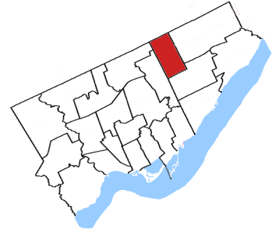 Map of the Scarborough—Agincourt electoral district showing its borders from 1996 to 2004. Created by SimonP.